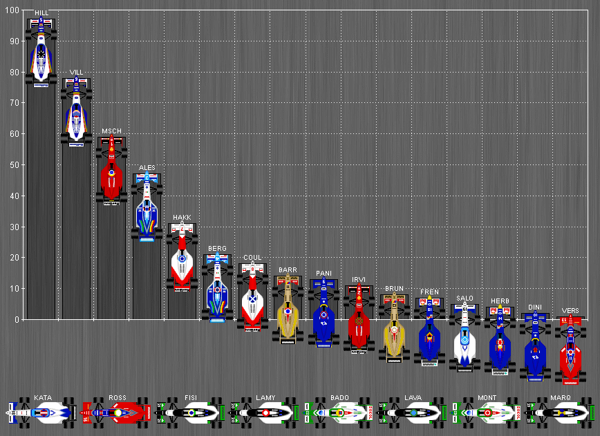 chart of final standings of 1996 Formula One season